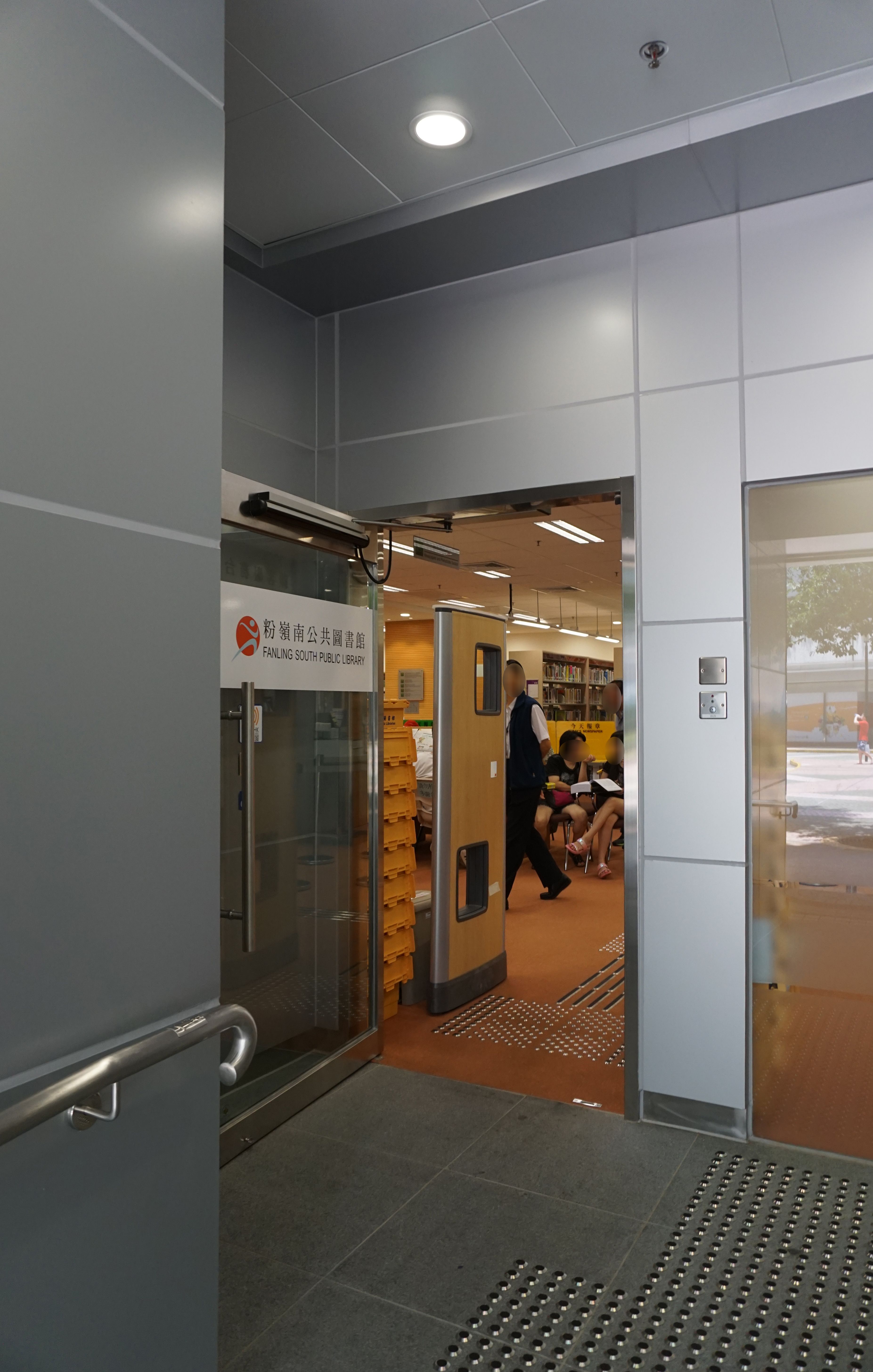 Fanling South Public Library in Fanling, Hong Kong.